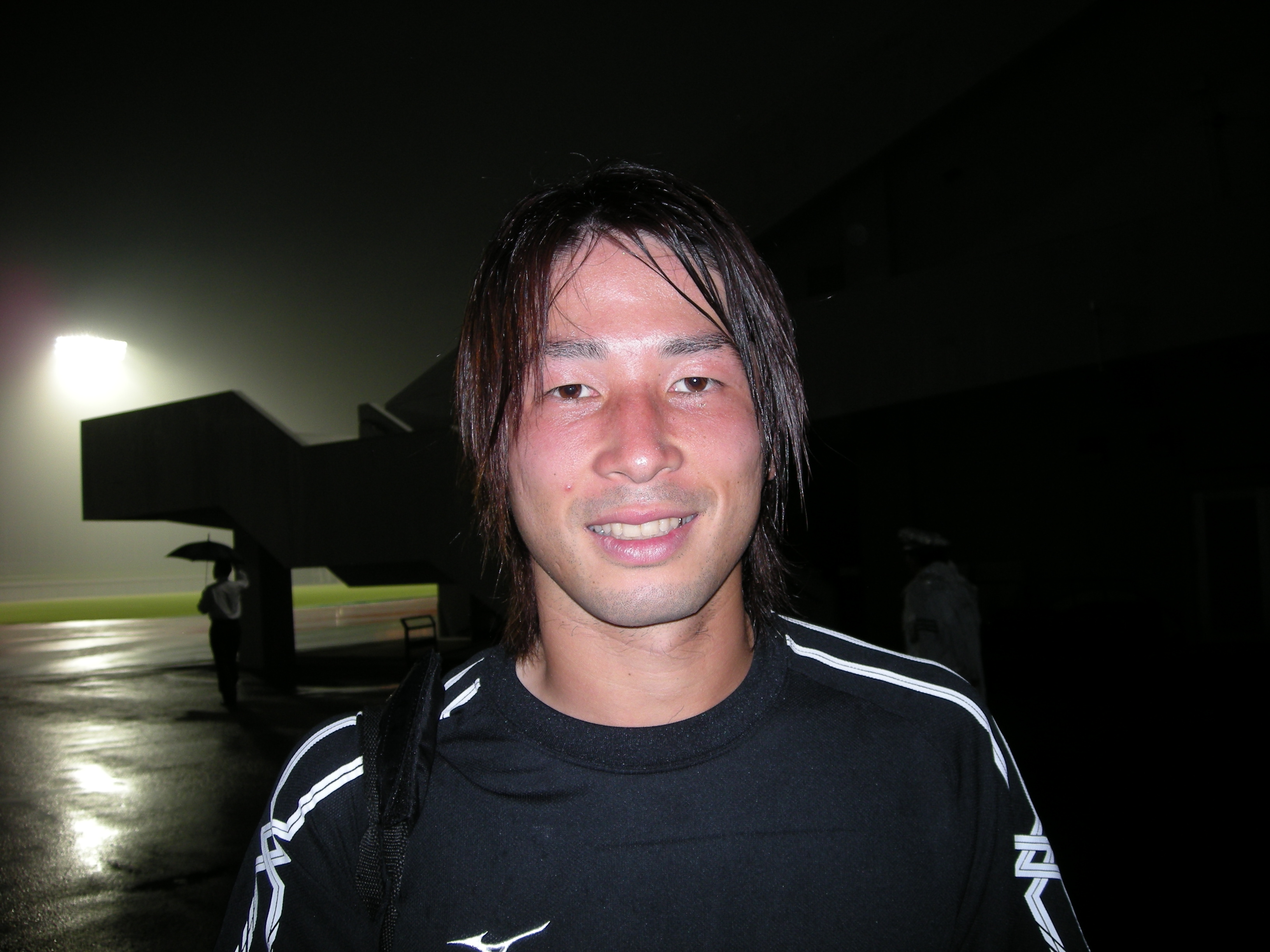 He is Naoya Shibamura, Japanese football player (footballer). He is now playing at Gainare Tottori.